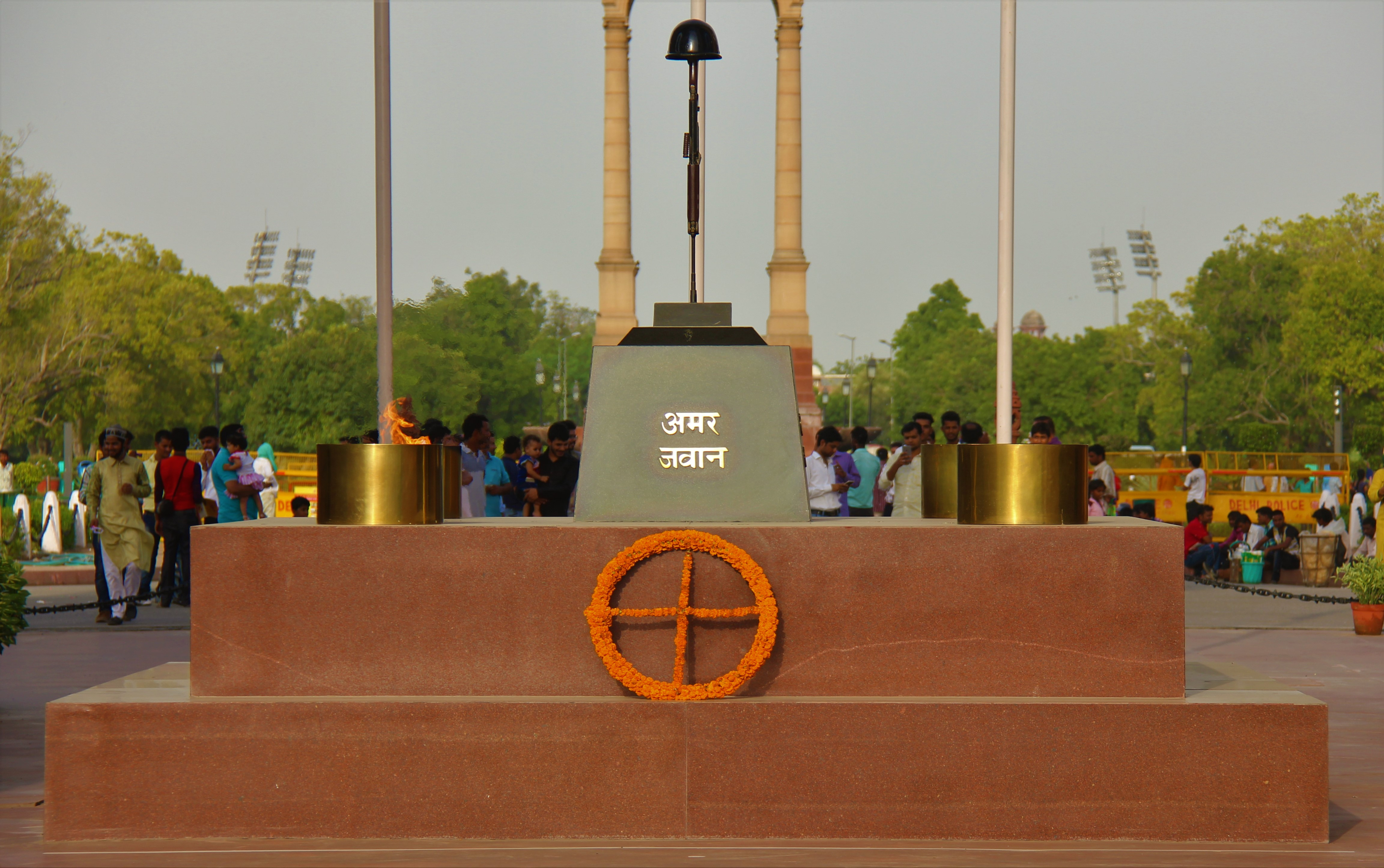 Amar Jawan Jyoti with Canopy in the background